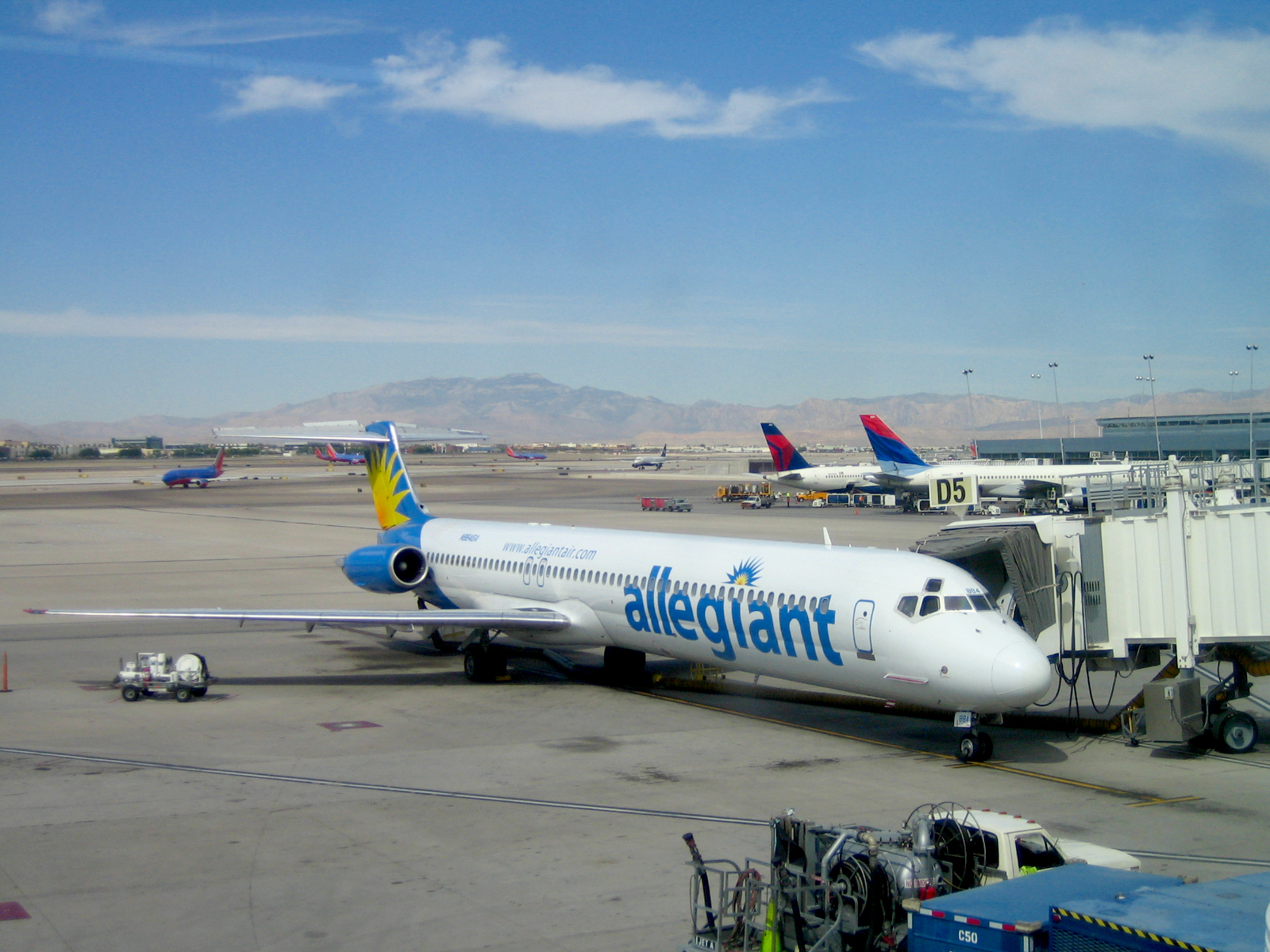 A McDonnell Douglas MD-83 (N884GA) of Allegiant Air at McCarran International Airport, Las Vegas, Nevada, USA.